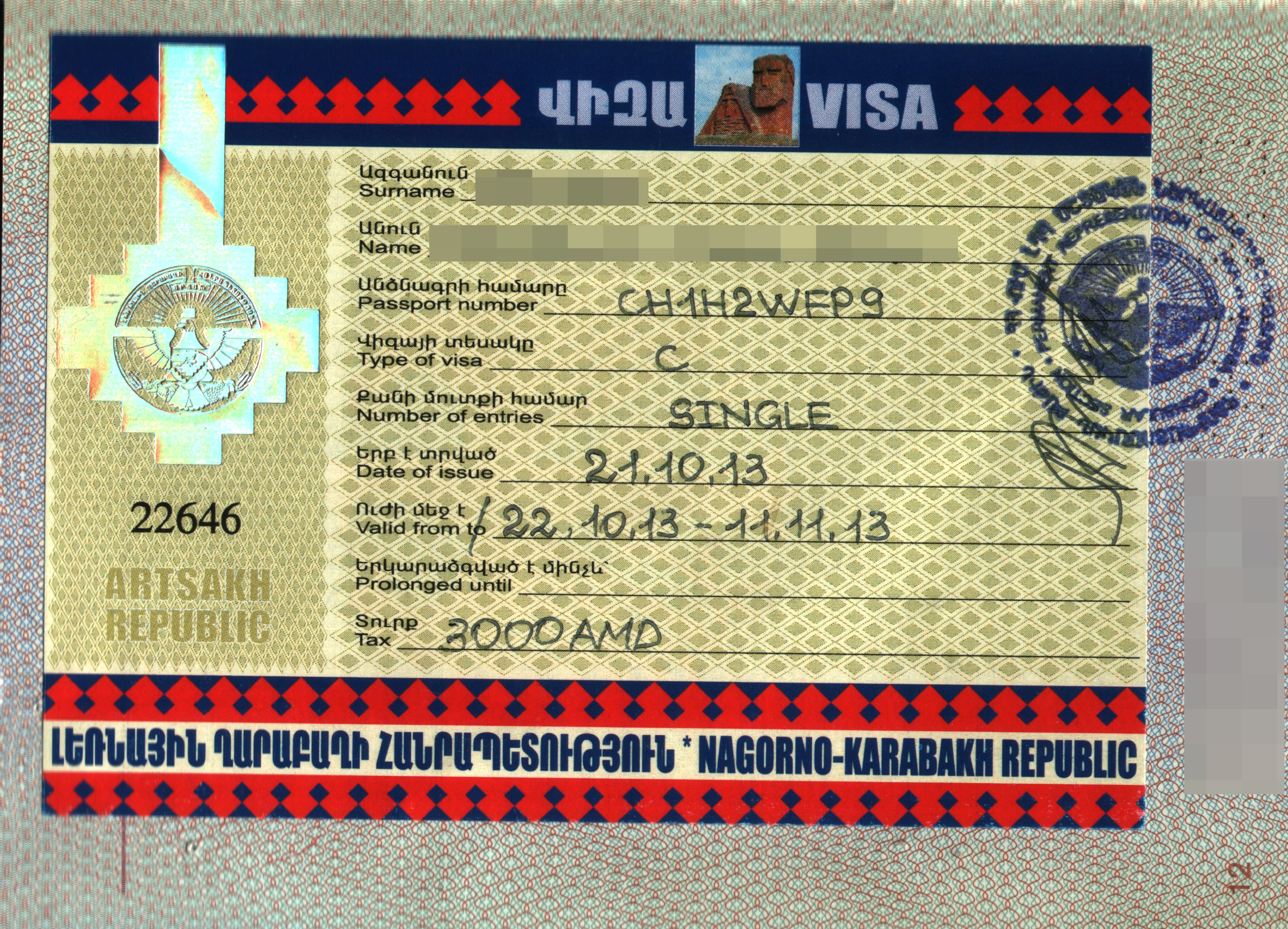 Entry permit (visa) for the disputed part of Armenian territory the Nagorno-Karabakh Republic, claimed by Azerbaijan. Issued at Yerevan 2013.